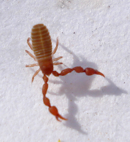 Lamprochernes nodosus